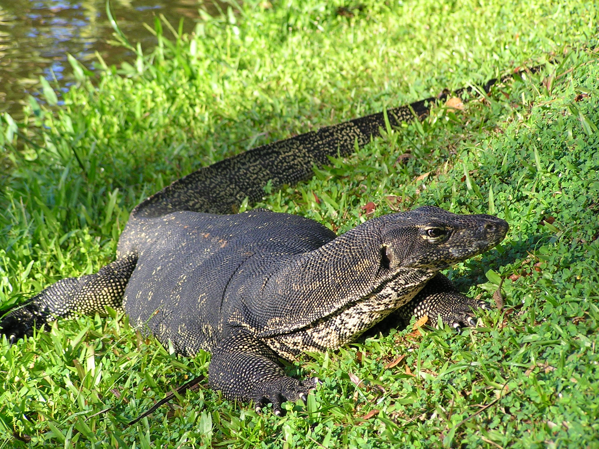 A malayan water monitor lizard in Borneo, Malaysia